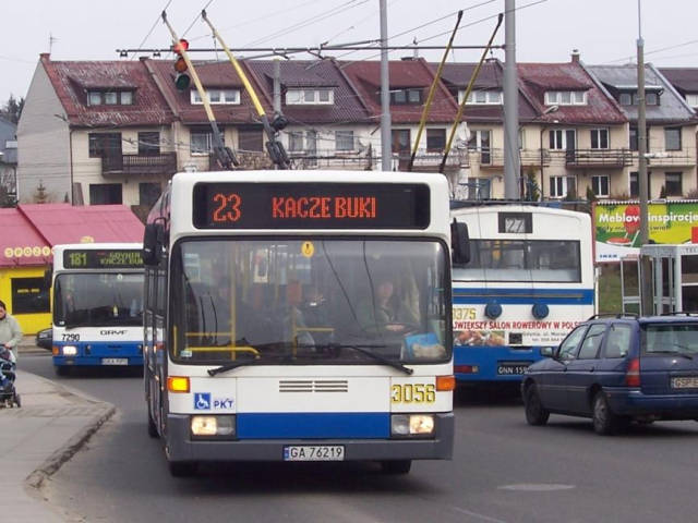 Mercedes-Benz O405NE (#3056, built 1994) and Jelcz 120MT in Gdynia, Poland.